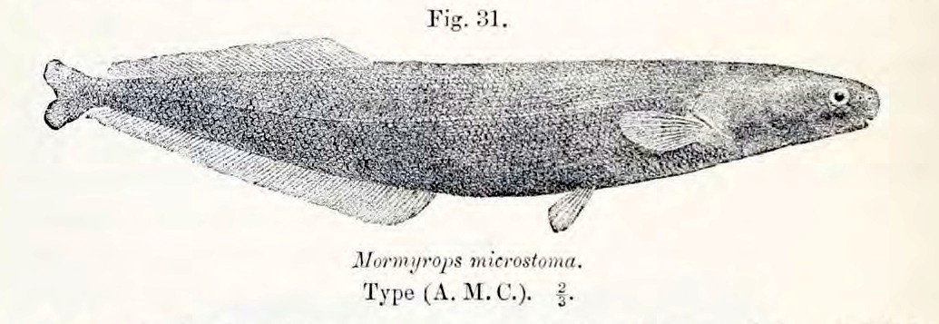 Mormyrops microstoma Boulenger, 1898